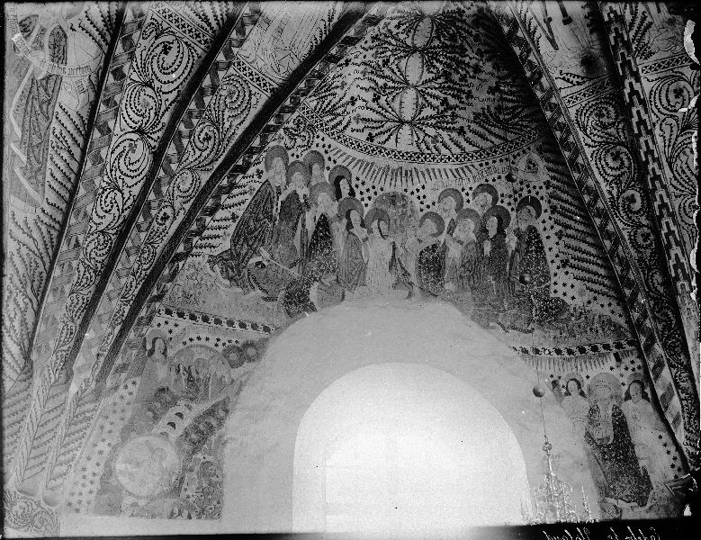 On the northern wall